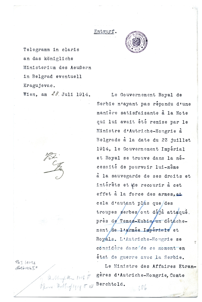 Draft of the Declaration of War from the Imperial and Royal Government of Austria and Hungary to Serbia, presented by Secretary of State Berchtold, signed by Emperor Franz Joseph (vidi) This draft still contained the mentioning of a battle at Temes Kubin, that was assumed to be factual on July 27, when the declaration was presented to the emperor. After the report on that battle had been retracted the same or at in the morning of July 28, Secretary of State Berchtold crossed out the paragraph and sent out the Declaration of War to Serbia without informing the Emperor again on this change of events and the wording of the declaration.